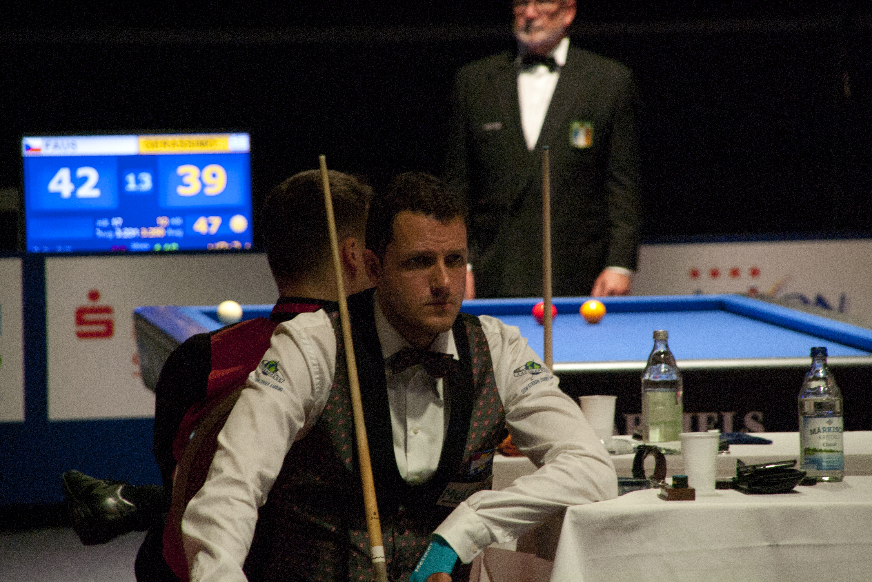 The making of this document was supported by the Community-Budget of Wikimedia Germany. European Carom Billiards Championships 2015